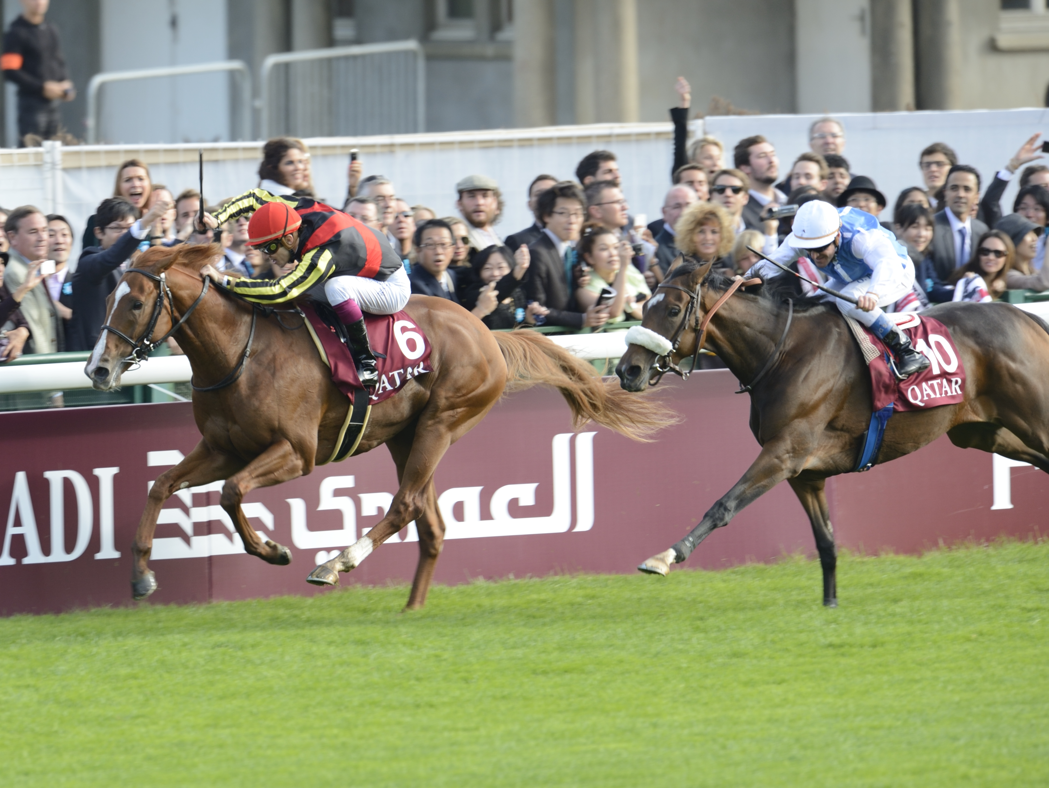 Orfevre-Japanese Horse- was running along with Solemia at Arc de Triumphe 2012